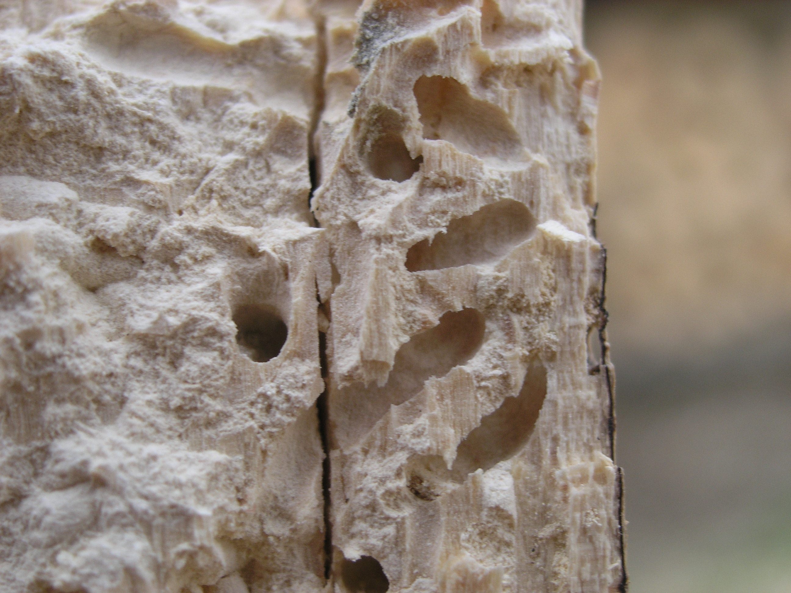 Closeup of tunnels bored by the common woodworm (anobium punctatum). Diameter of the tunnels is about 1.5 mm. Place: Hannover, Germany Date: 14.4.2006 Photgrapher: Kai-Martin Knaak